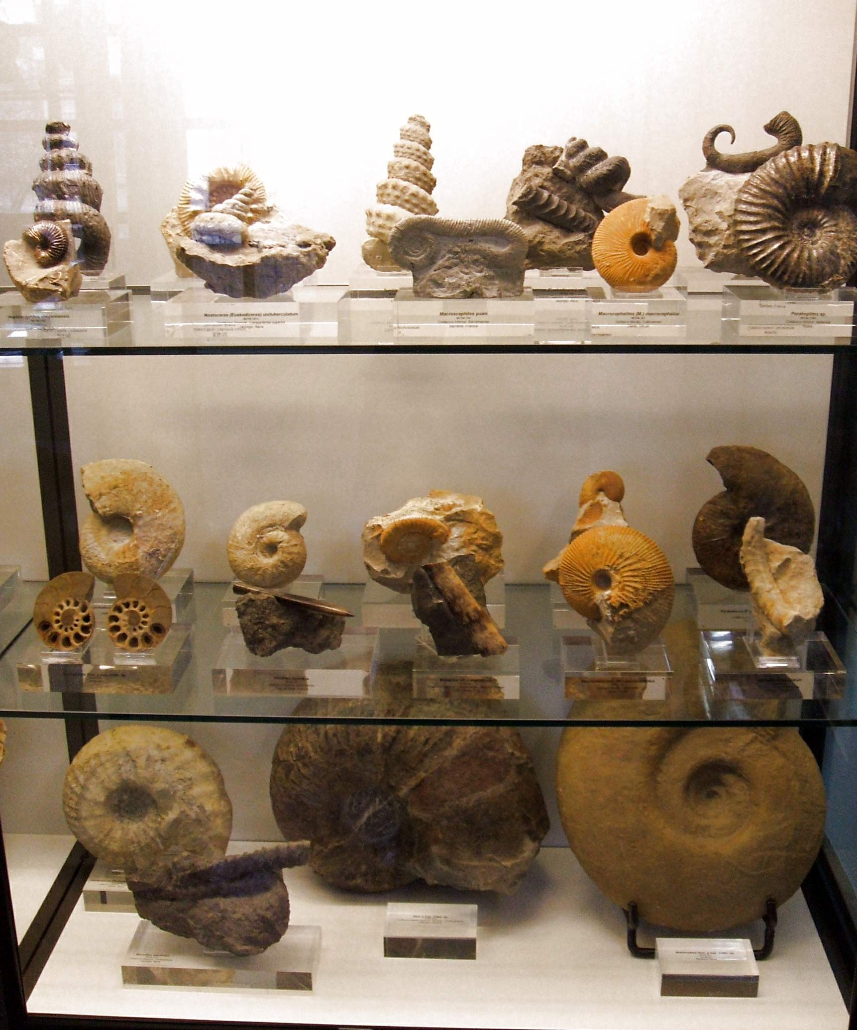 Museo de Ciencias Naturales de Álava (Torre de Doña Ochanda), en Vitoria-Gasteiz